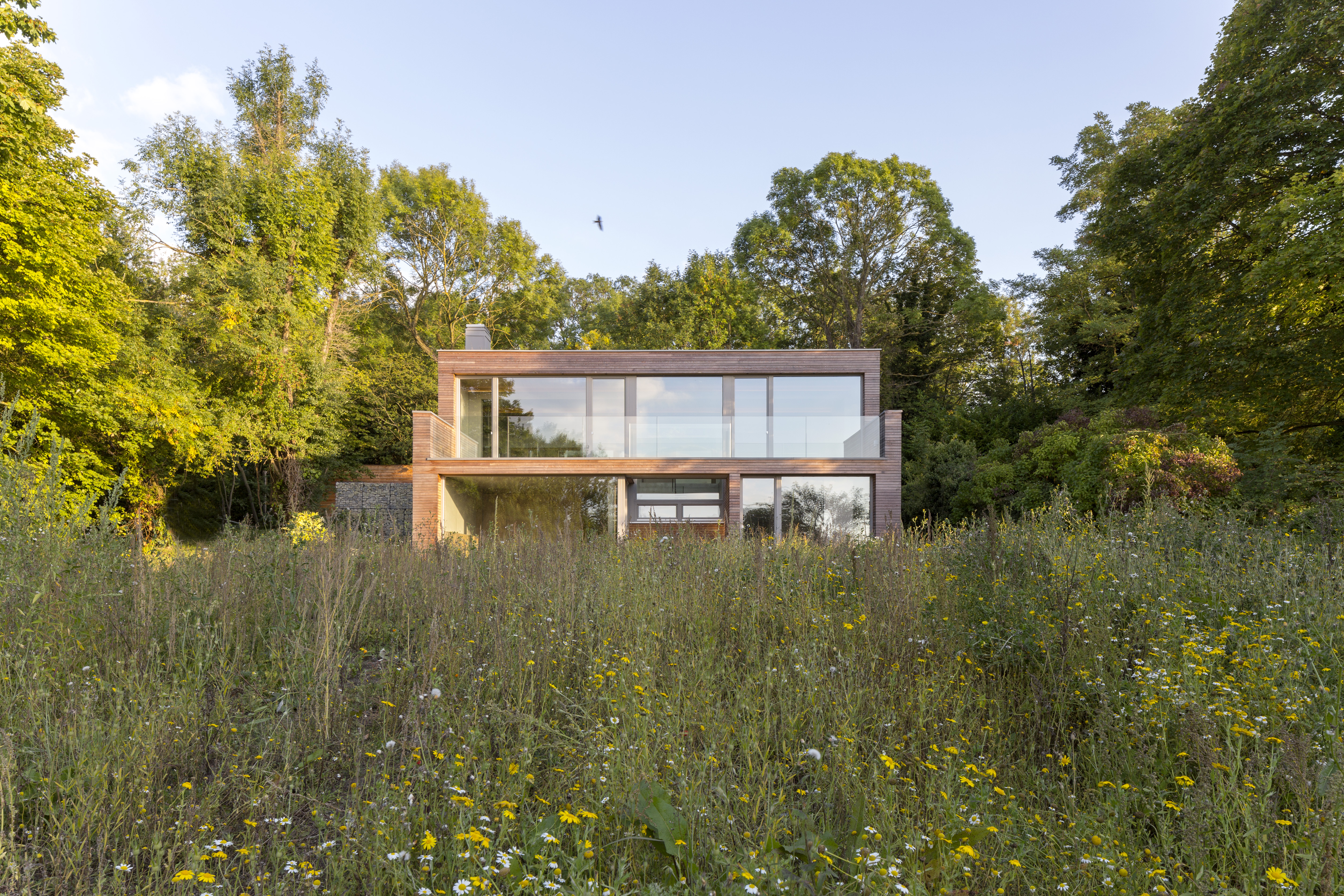 Photograph of bere:architects Lark Rise Passive House, designed by Justin Bere